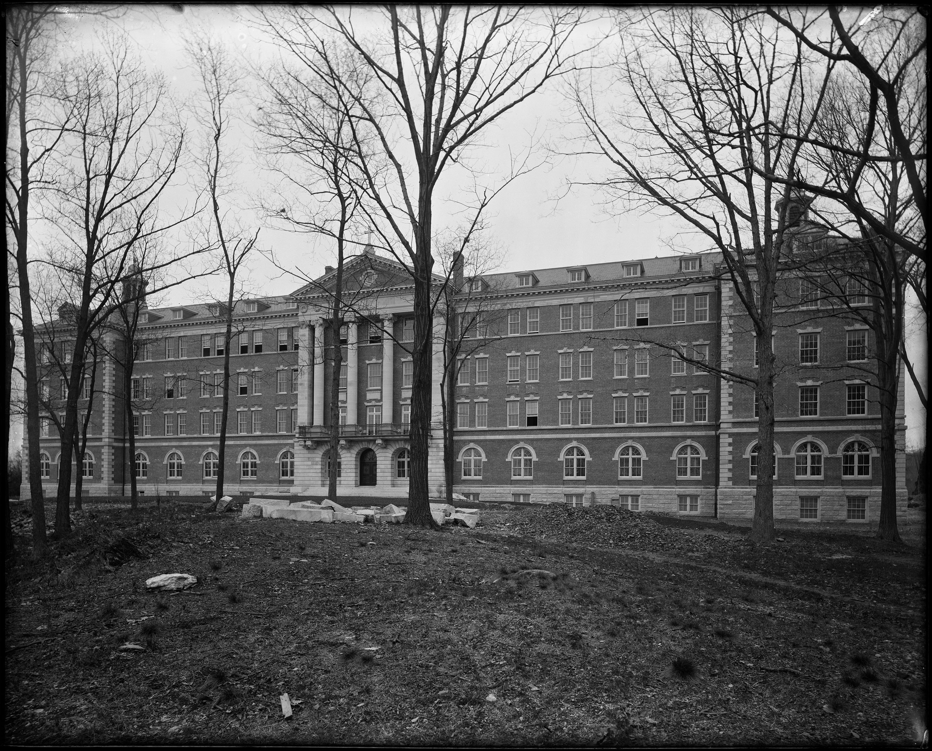 St. Andrew-on-Hudson in 1920, now the Hyde Park campus of the CIA.